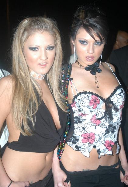 Mia Rose, Ava Rose at Video Team's Alexis Amore Party at Basque, February 4 2006